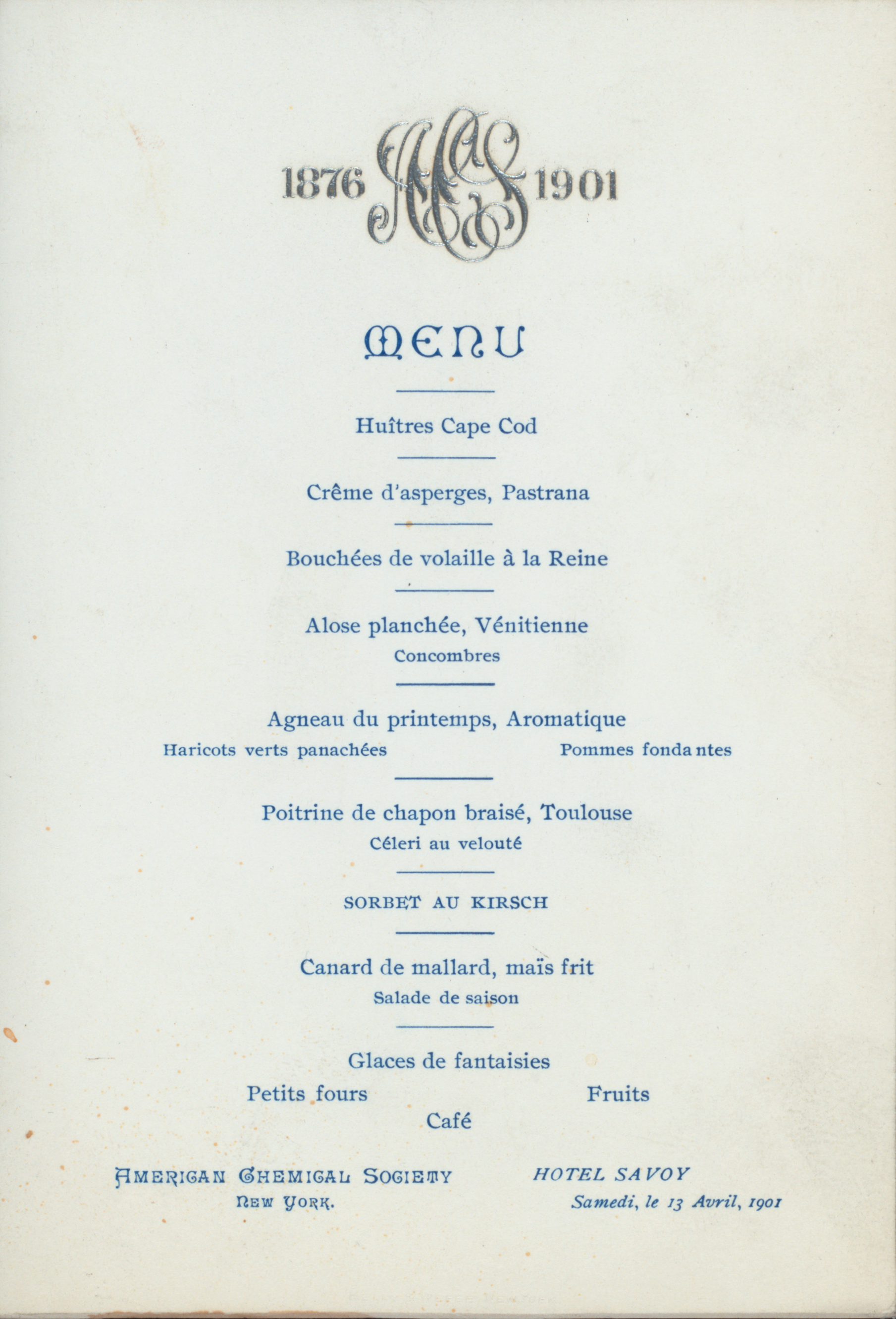 25TH ANNIVERSARY BANQUET [held by] AMERICAL CHEMICAL SOCIETY [at] "HOTEL SAVOY,NEW YORK, NY" (HOTEL;)